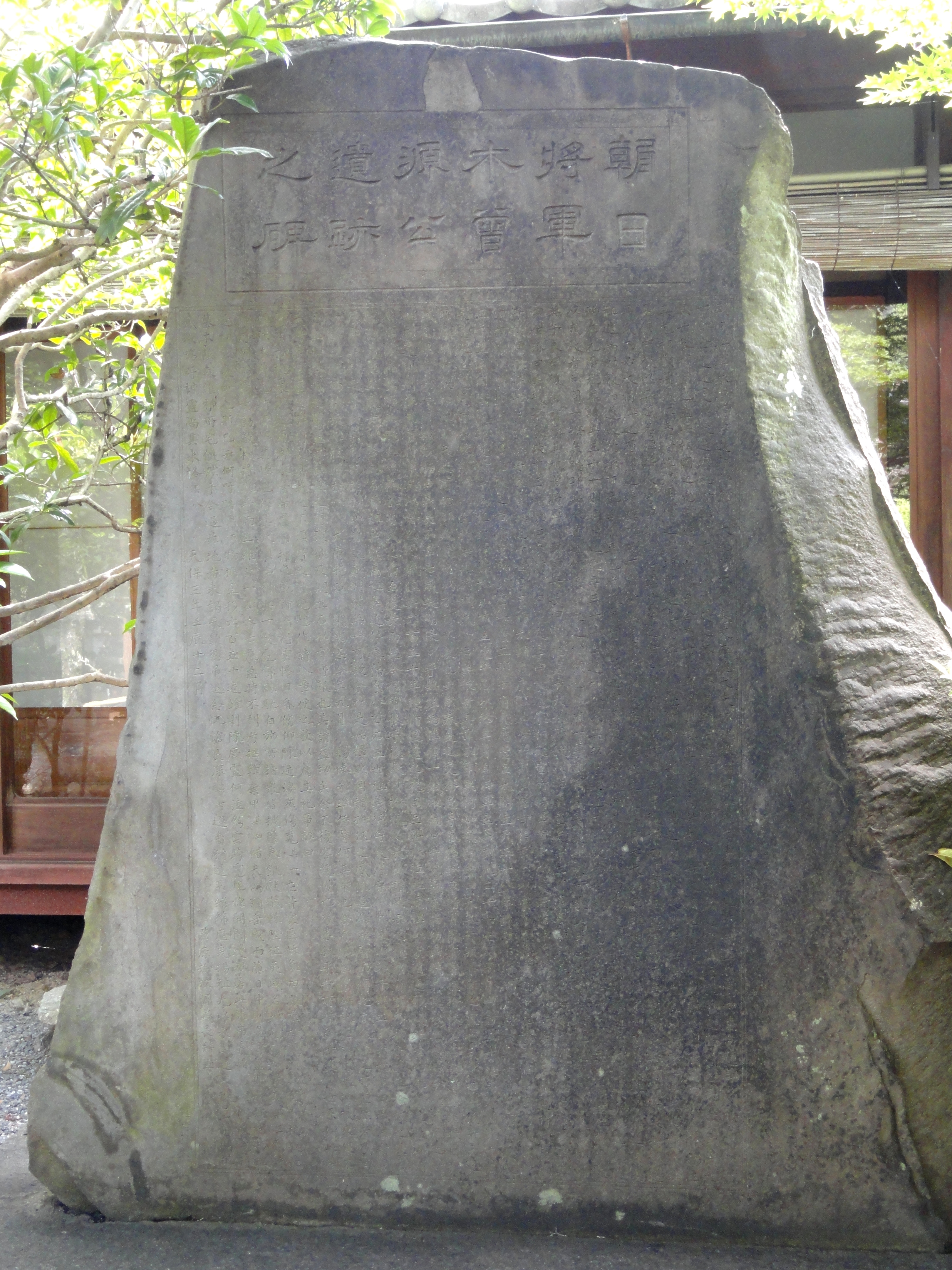 Gichuji (義仲寺), Otsu, Shiga, Japan.